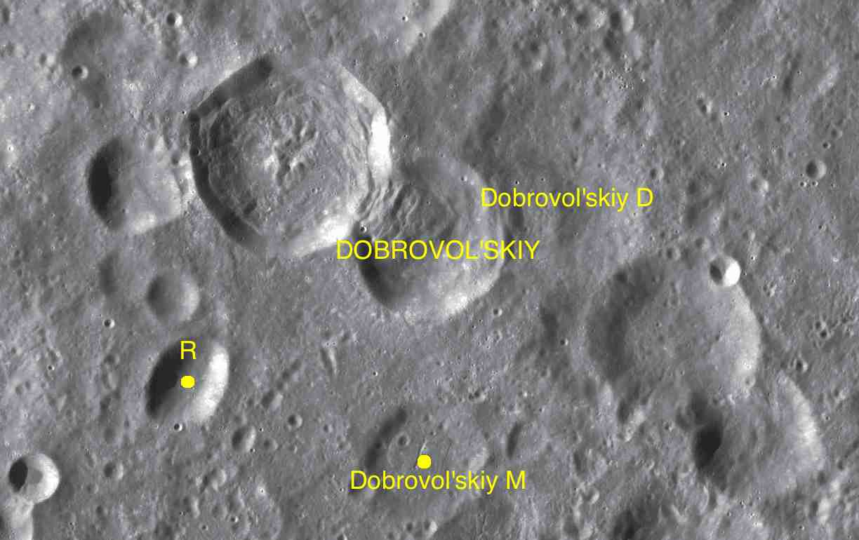 Parts of the charts LAC-83, LAC-84 used for the presentation